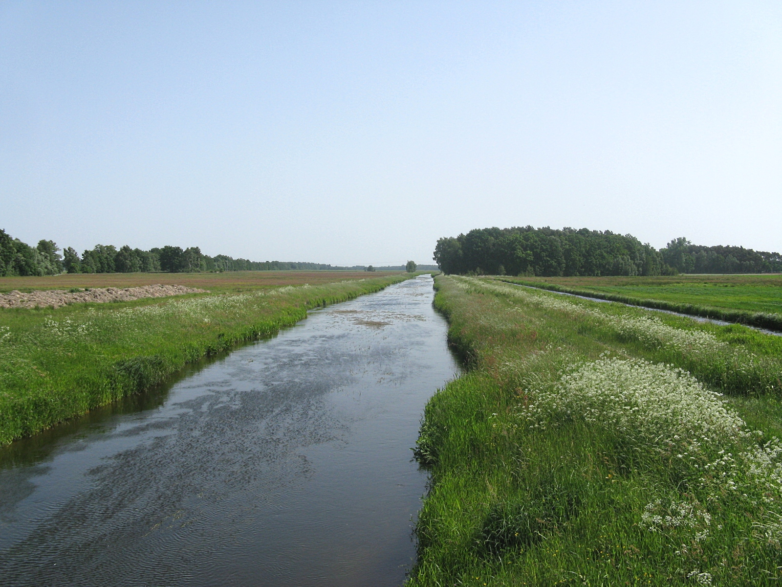 Rögnitz river between Leussow and Menkendorf, district Ludwigslust-Parchim, Mecklenburg-Vorpommern, Germany